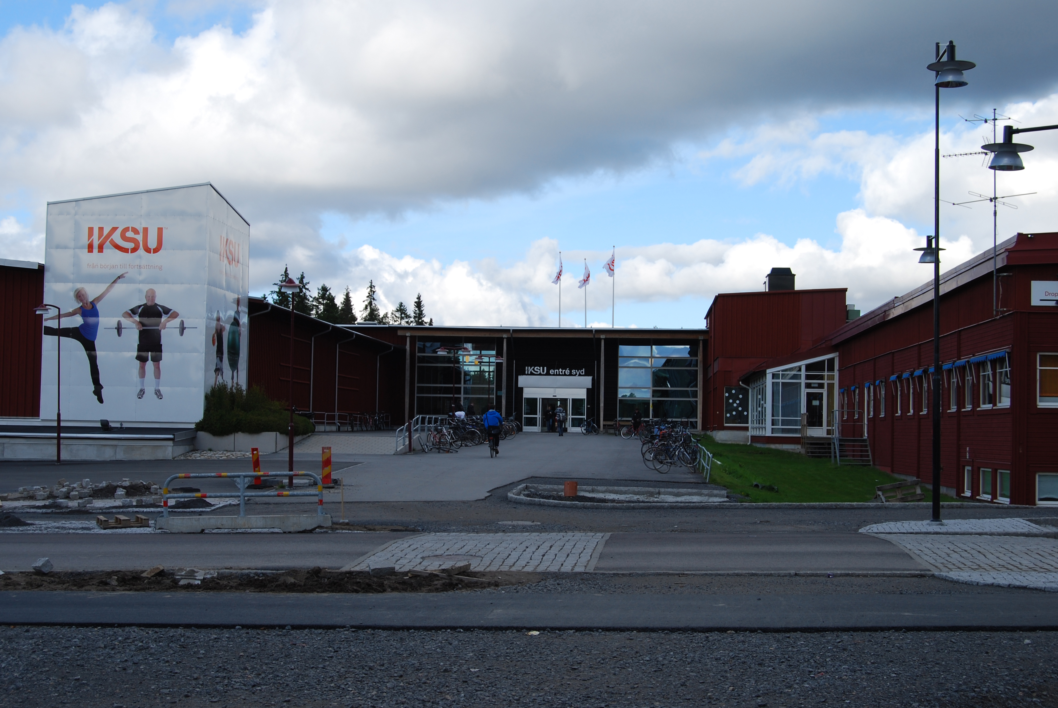 IKSU sport in Umeå, Sweden